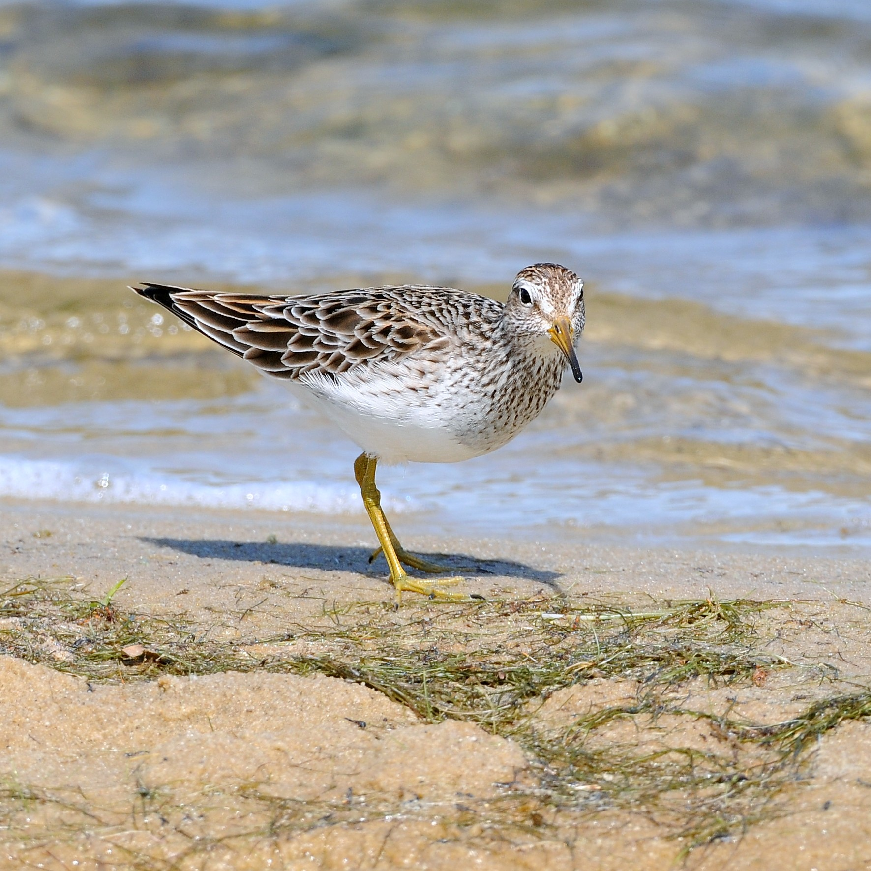 A Pectoral Sandpiper at Cape May Point State Park, New Jersey, USA.